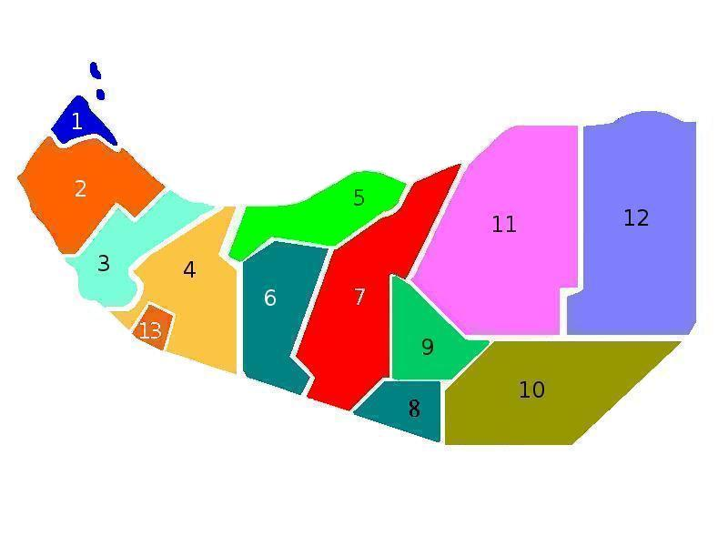 Somaliland map of regions